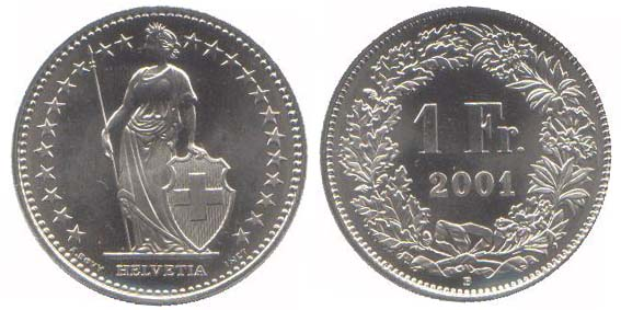 1 Swiss franc coin, year 2001